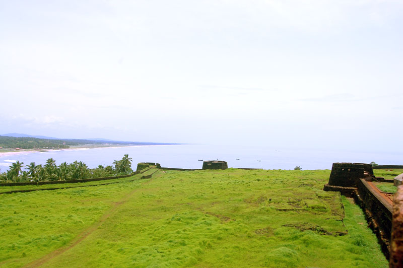 Bekal Fort, captured in August 2006. August through December, just after monsoon and before summer, is the only time the fort is so green.